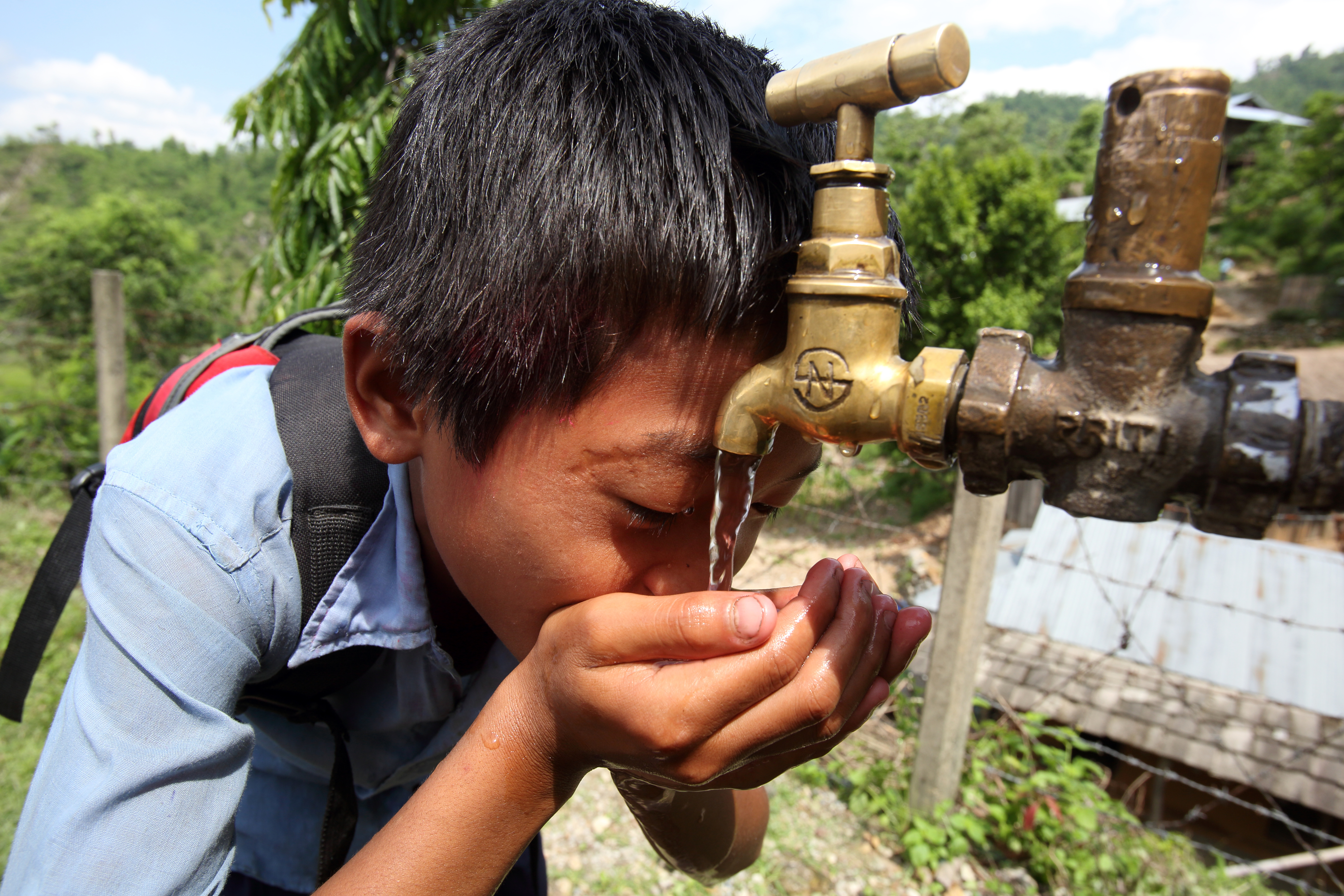 Boy drinks from a tap at a NEWAH WASH water project in Puware Shikhar, Udayapur District, Nepal. Photo by Jim Holmes for AusAID. (13/2529)